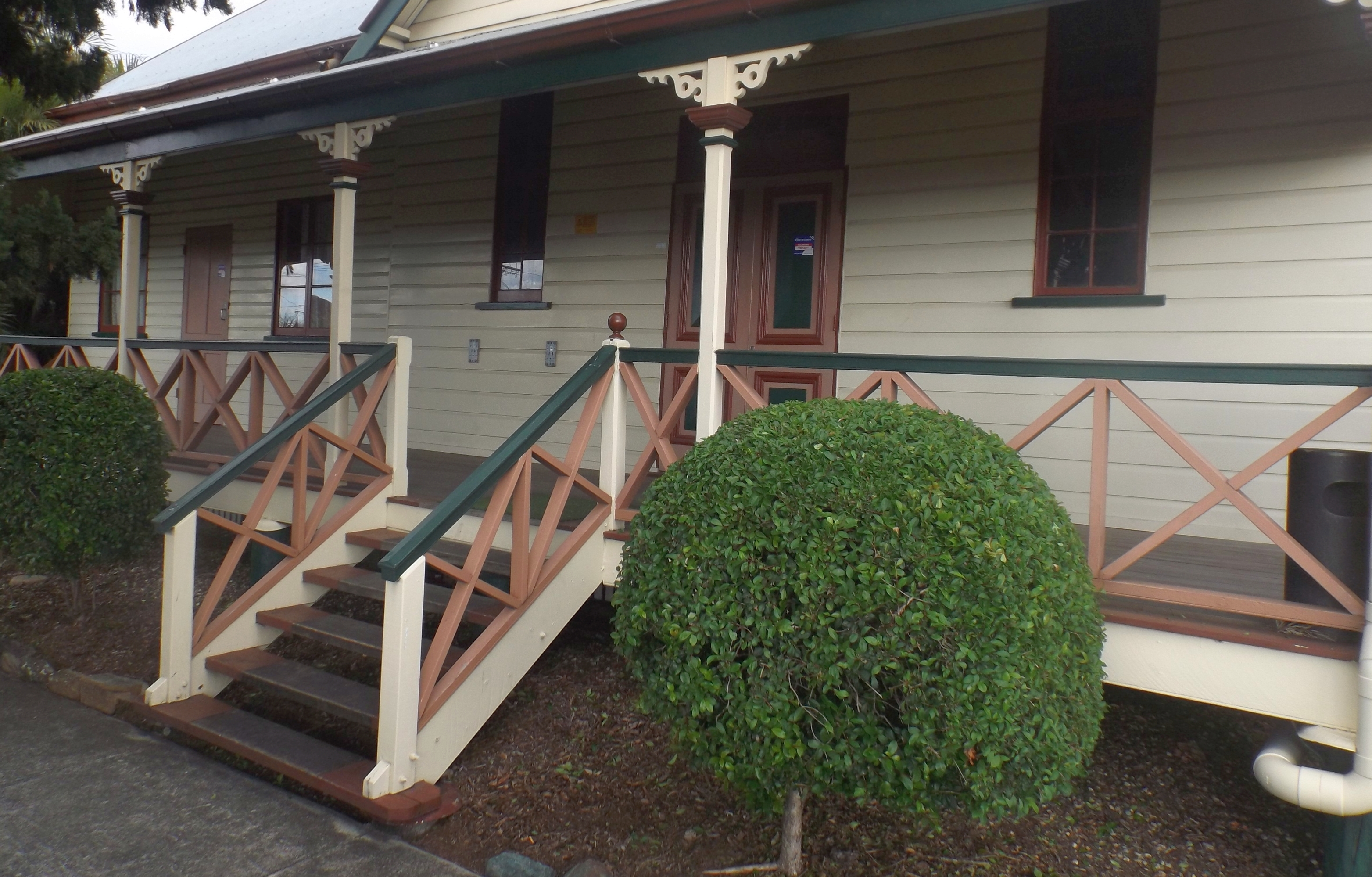 Photo of the verandah of Pine Rivers Shire Hall at Strathpine, Moreton Bay Region, Queensland, Australia.